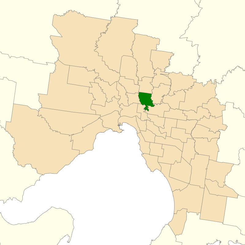 Location of the Victorian electoral district of Northcote (dark green) in the Greater Melbourne area.